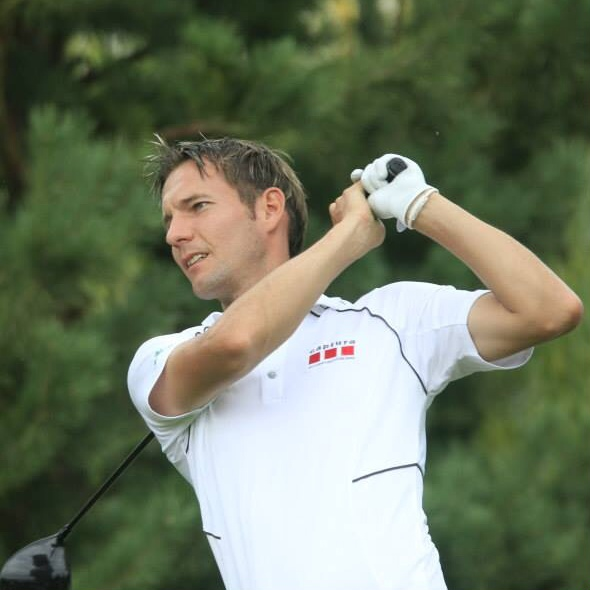 Picture of Roland Steiner